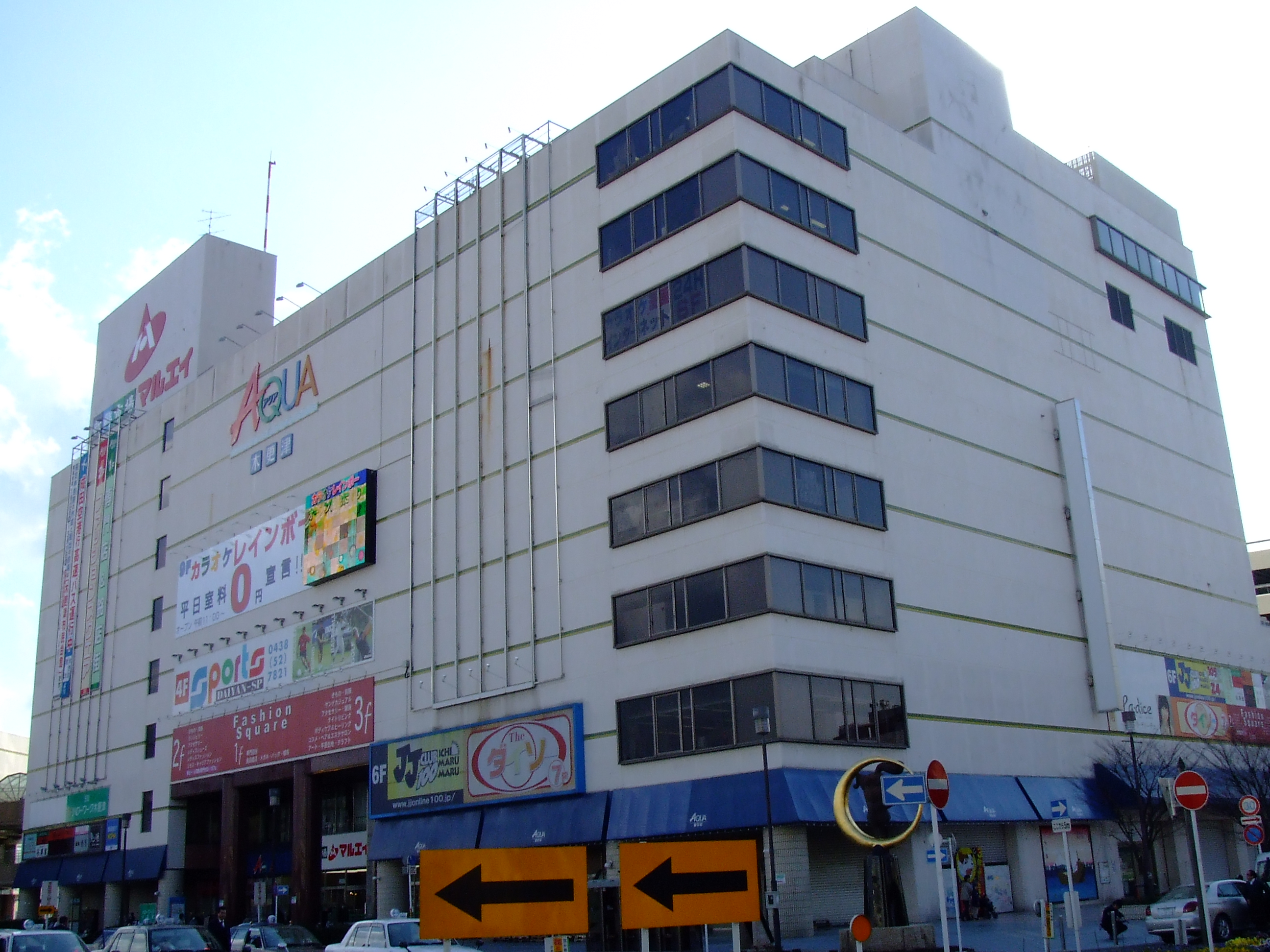 Aqua Kisarazu